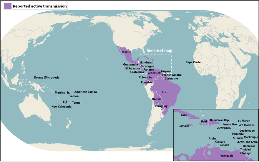 Map produced by the US Centers for Disease Control of active Zika Virus transmission as of April 13, 2016